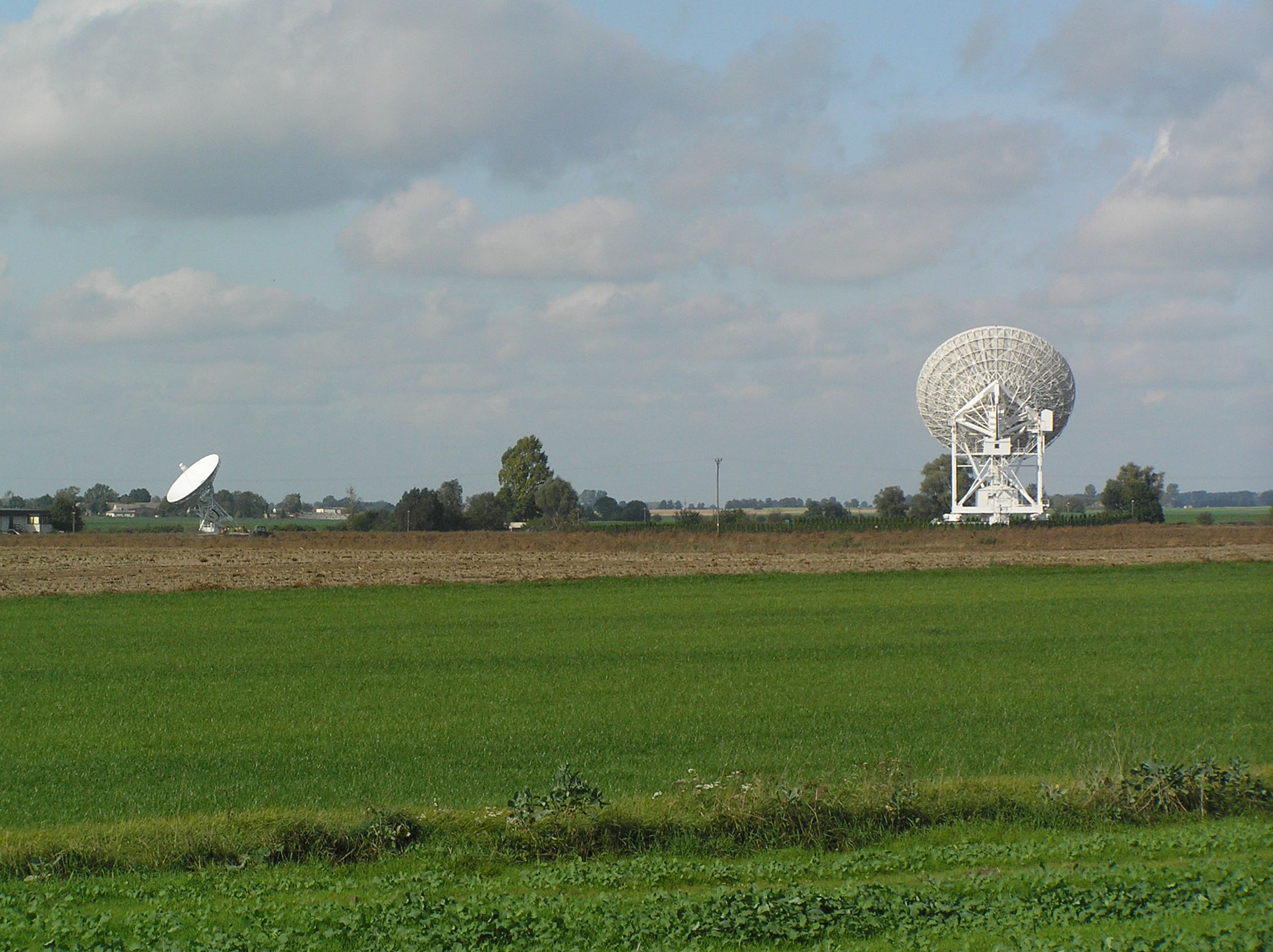 Radiotelescopes in Piwnice observatory (near Toruń), Poland, part of VLBI